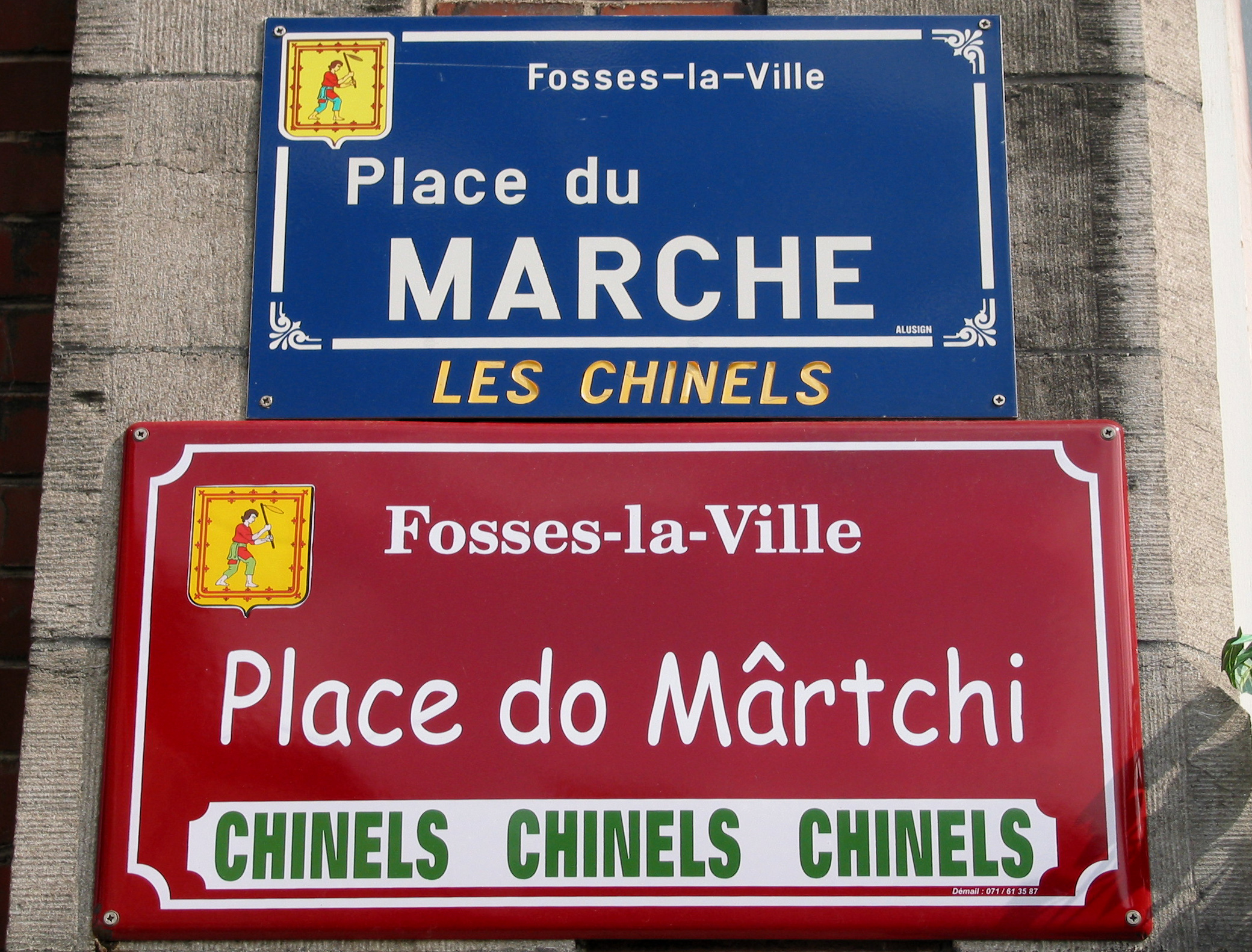 Fosses-la-Ville (Belgium), enameled street sign writen in Walloon.